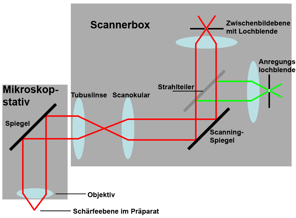 scheme of a confocal laser scanning microscope in German.